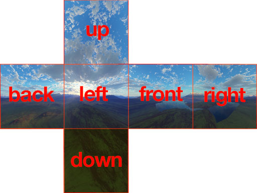 An example of a skybox and how the faces can be aligned